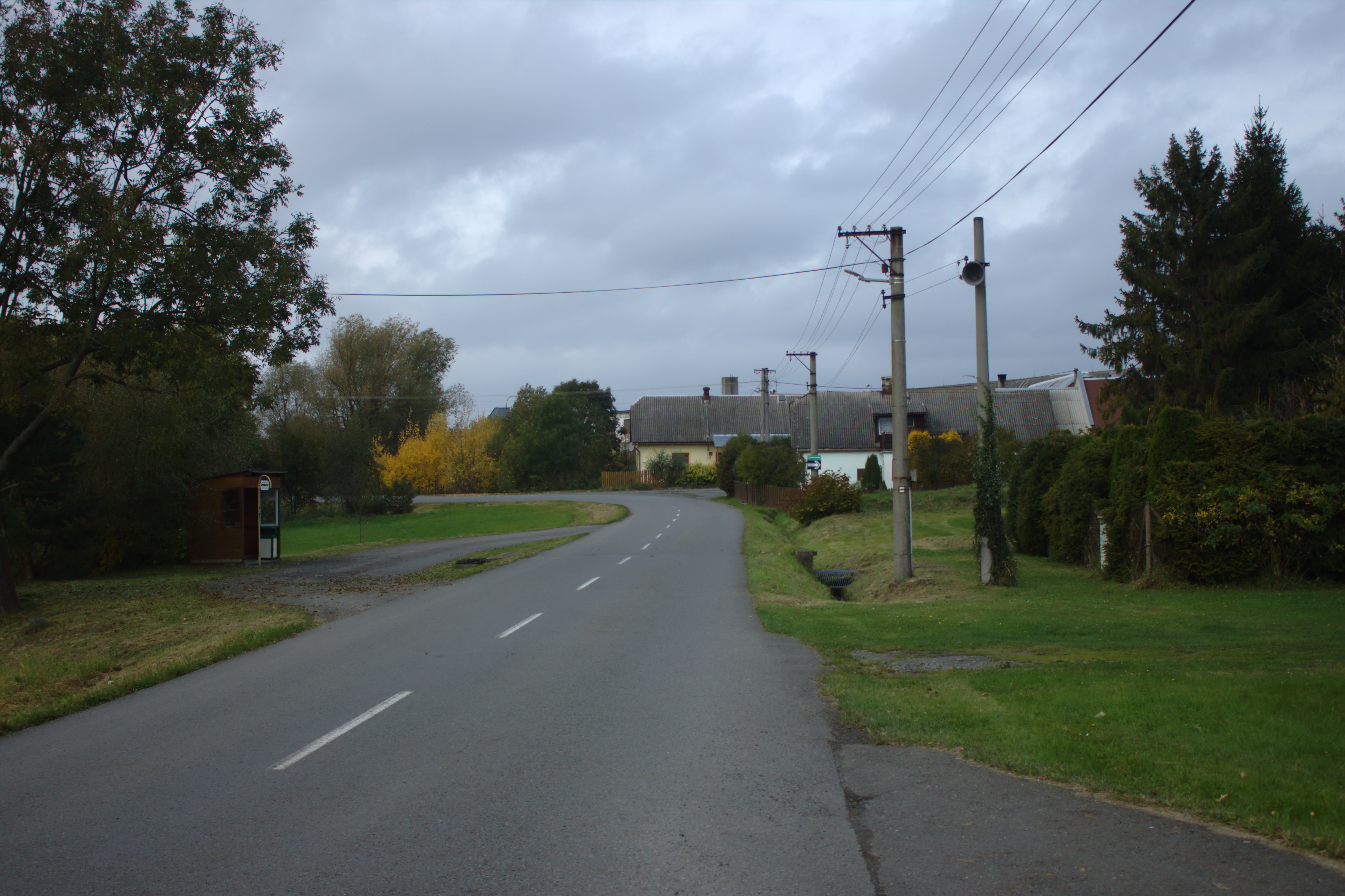 A road in Nové Lublice, CZ